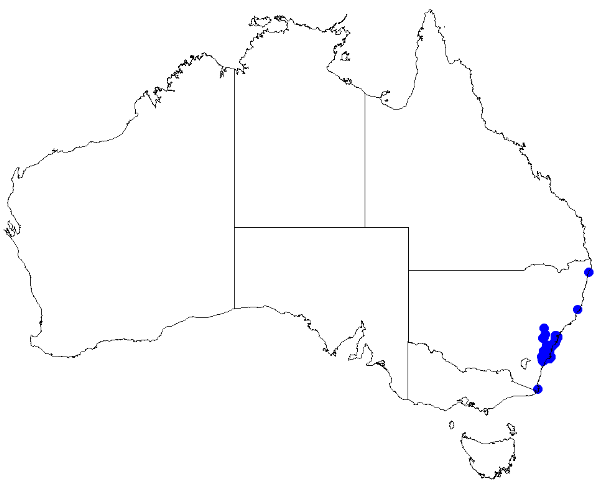 Boronia thujona downloaded from Australasian Virtual Herbarium 10 April 2019 using This download included all the environmental overlay fields and ALA's data checking fields including "cultivated / escapee", "outside expert range for species", "latitude is negated", "coordinates are transposed", "taxon misidentified", "habitat incorrect for species", and "suspected outlier" (711 fields). Deleting occurrences for which any of the above were true, 46 specimens with coordinates were deleted.